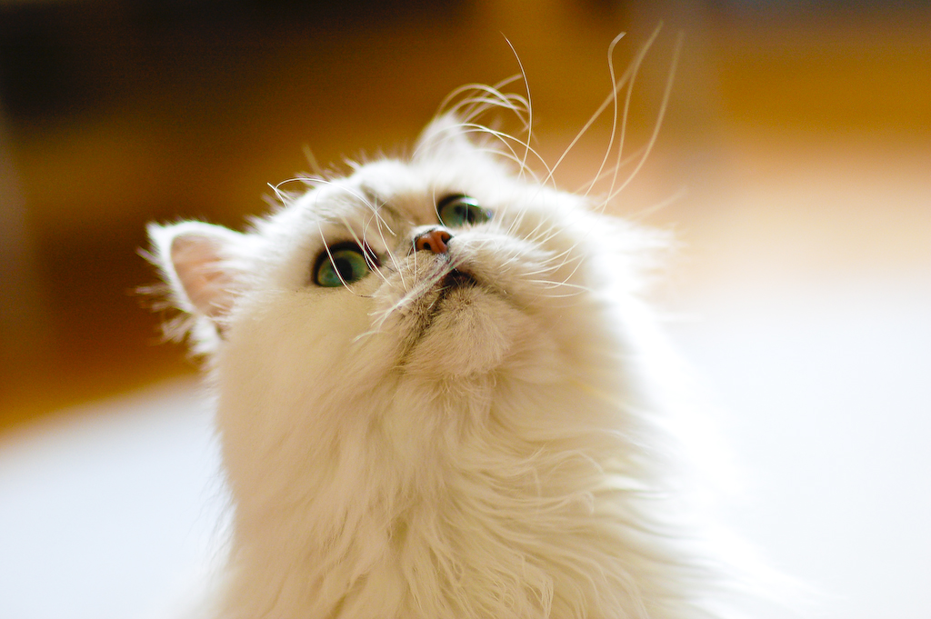 Taken by Andy Fishburne, 29th September 2007